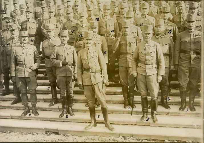 Karl I of Austria with his generals in 1918